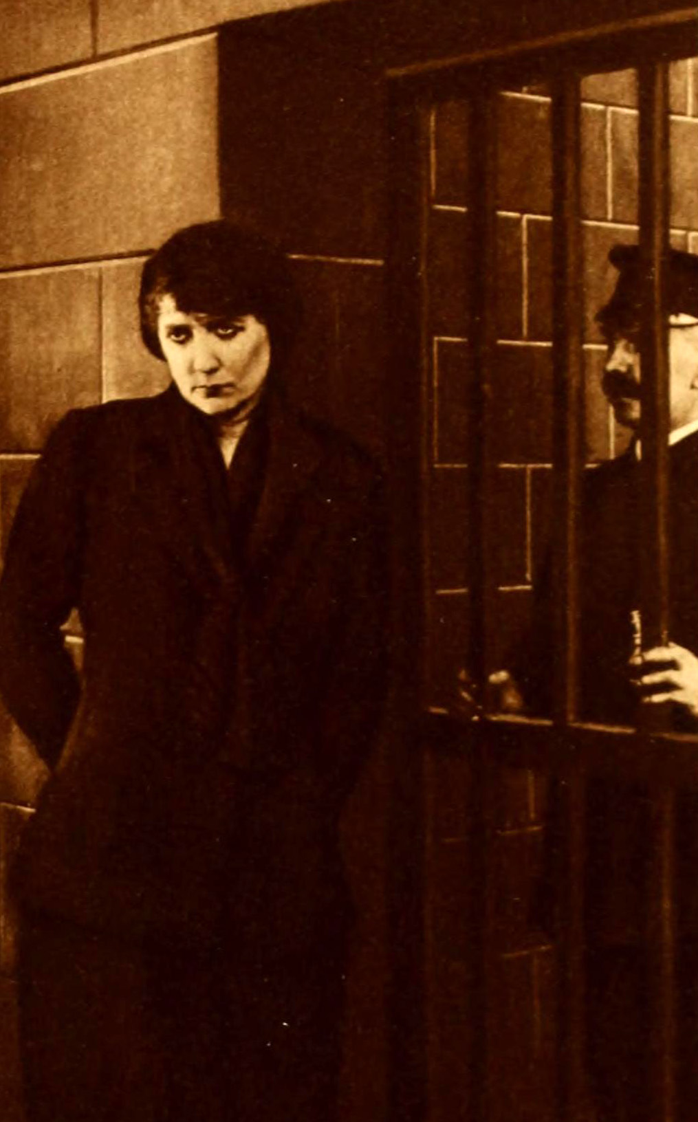 Advertisement in The Moving Picture World for the American film The Toilers (1916).